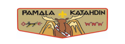 Pamola Lodge standard issue flap